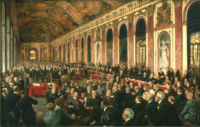 This work was painted to commemorate the signing of the peace treaty in Versailles. It captures a moment of the signing ceremony which took place in the Hall of Mirrors in the Palace of Versailles. For all of its known imperfections, the Treaty was seen as a symbol of hope. It looked to the past and brought a formal end to the First World War. German representatives, led by the Foreign Minister Hermann Muller, had been required to sign first. President Woodrow Wilson of the United States was then the first representative of the victorious nations to sign. The British Prime Minister David Lloyd George can be seen seated at the table, adding his signature, and standing nearby is the Australian Prime Minister, William Hughes, waiting his turn amongst the other representatives of the British Empire. Hughes had been a vigorous participant at the Peace Conference, anxious that Australia make some territorial gain in the Pacific, in recognition of the sacrifices Australians had made. The French Prime Minister Georges Clemenceau signed last. The rest of the long narrow room is packed with nearly a thousand invited spectators, whispering, clattering cameras, and jostling for a better view.